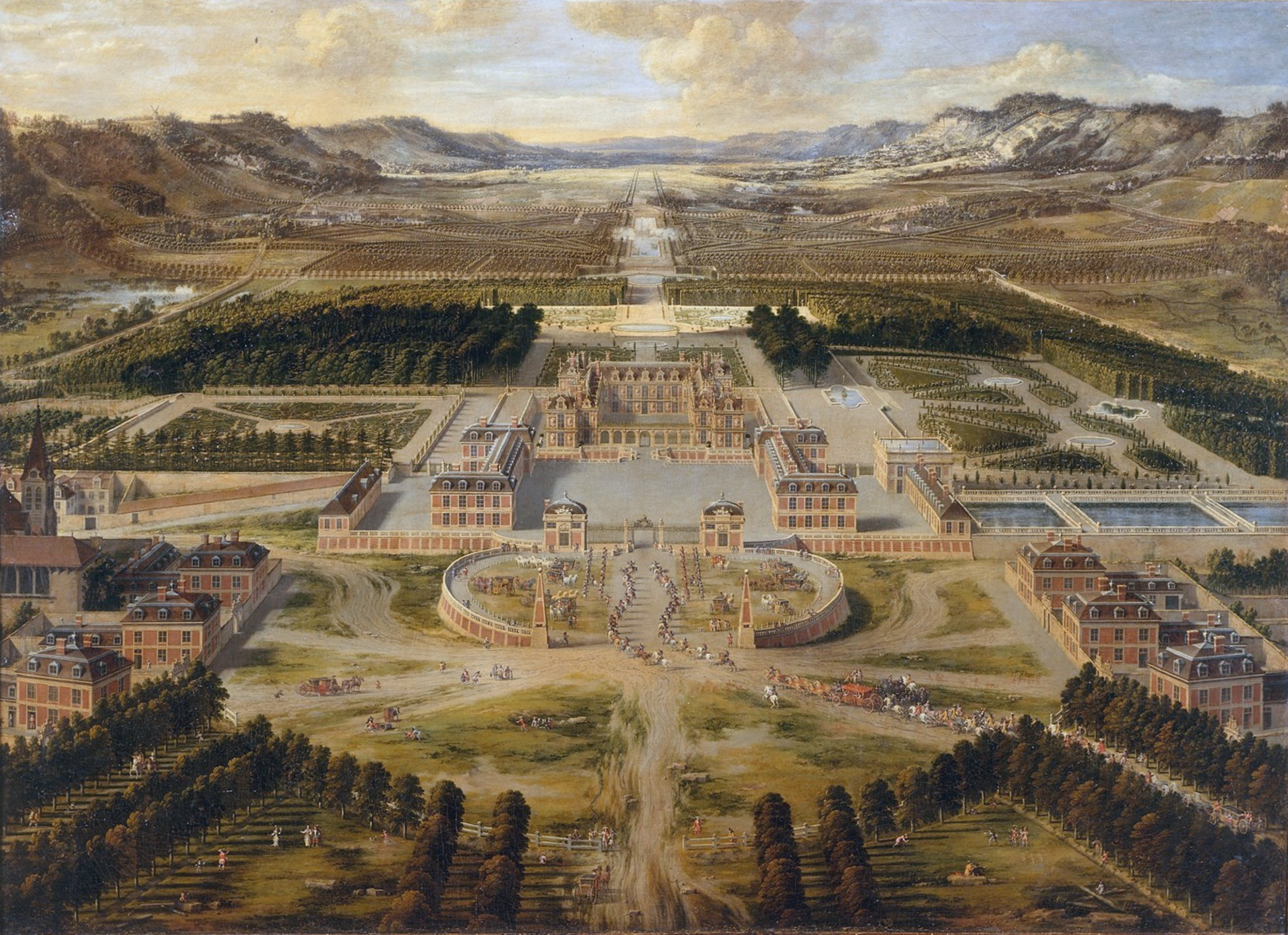 The Palace of Versailles circa 1668, as painted by Pierre Patel (Versailles Museum). The Grand Trianon, begun in 1670, is not depicted.